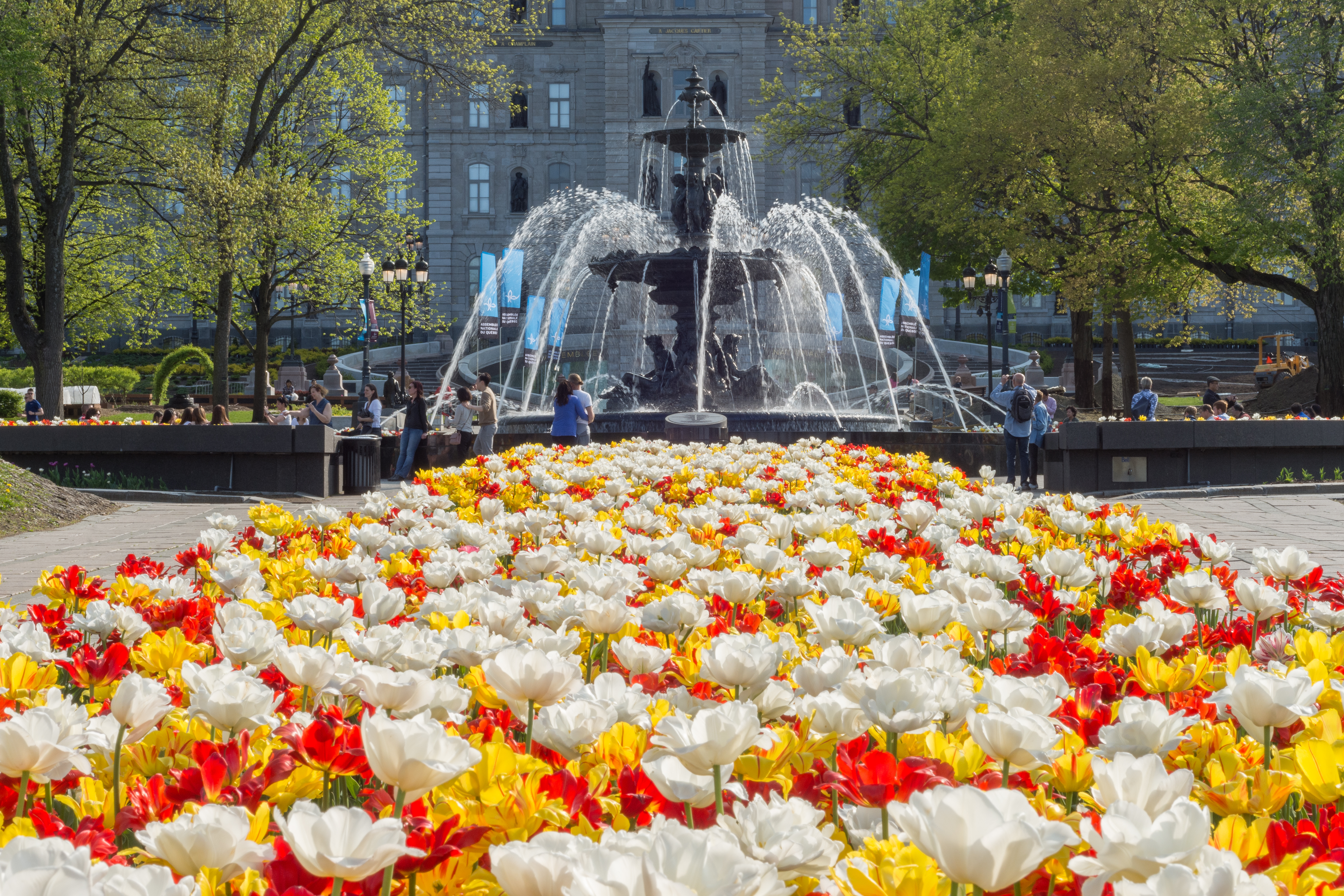 The Fontaine de Tourny is located in front of the main entrance of the Parliament Building in Quebec City. The fountain, which was installed and inaugurated in Quebec City on 3 July 2007, was crafted by French sculptor Mathurin Moreau in 1854. It was formerly installed in Bordeaux (France), but was dismantled in 1960 due to high maintenance costs. Peter Simons, president of the Maison Simons department store chain, acquired the aged fountain, had it restored, and donated it to Quebec City for the city's 400th anniversary.